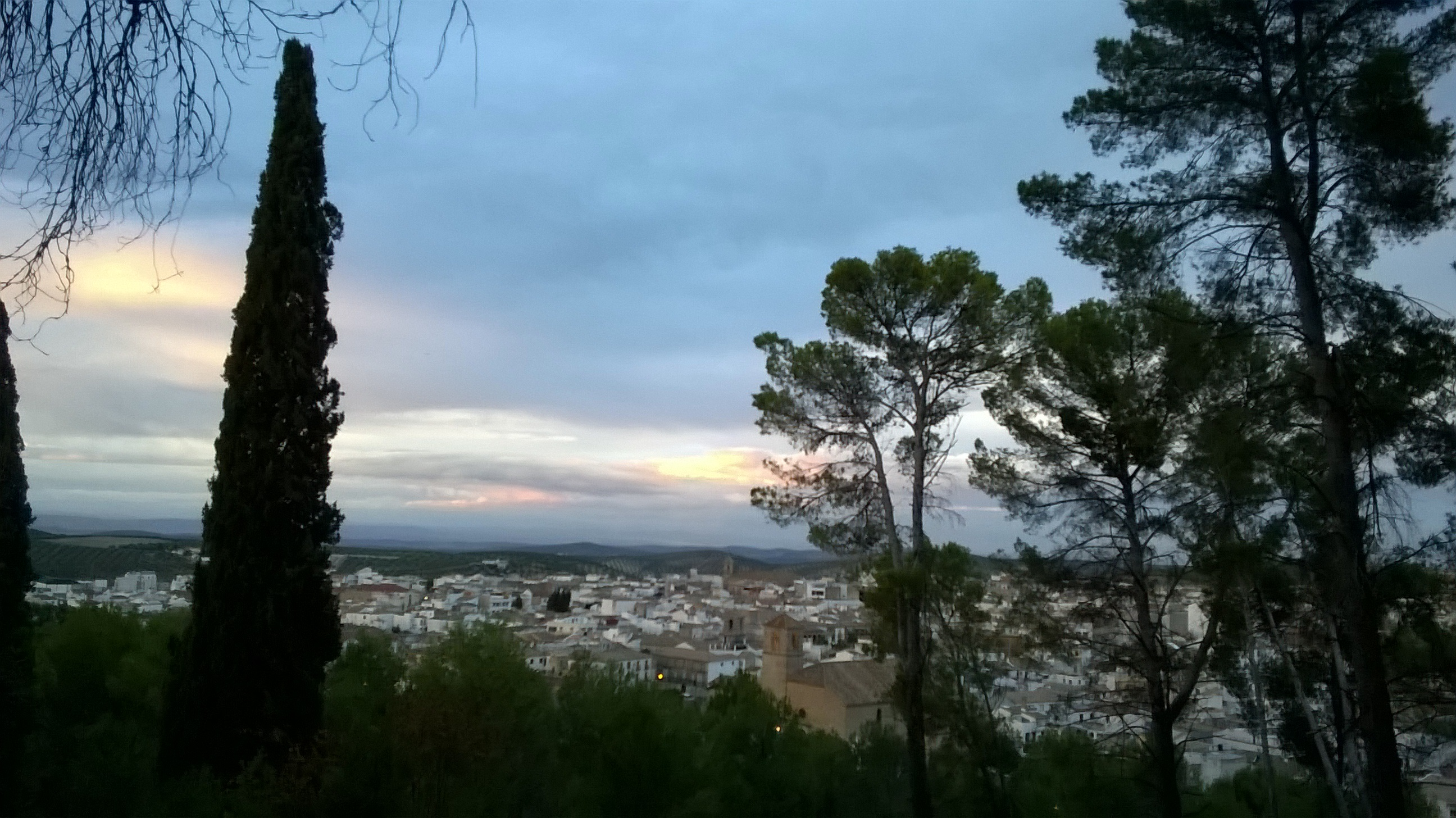 Calvario de Torredonjimeno